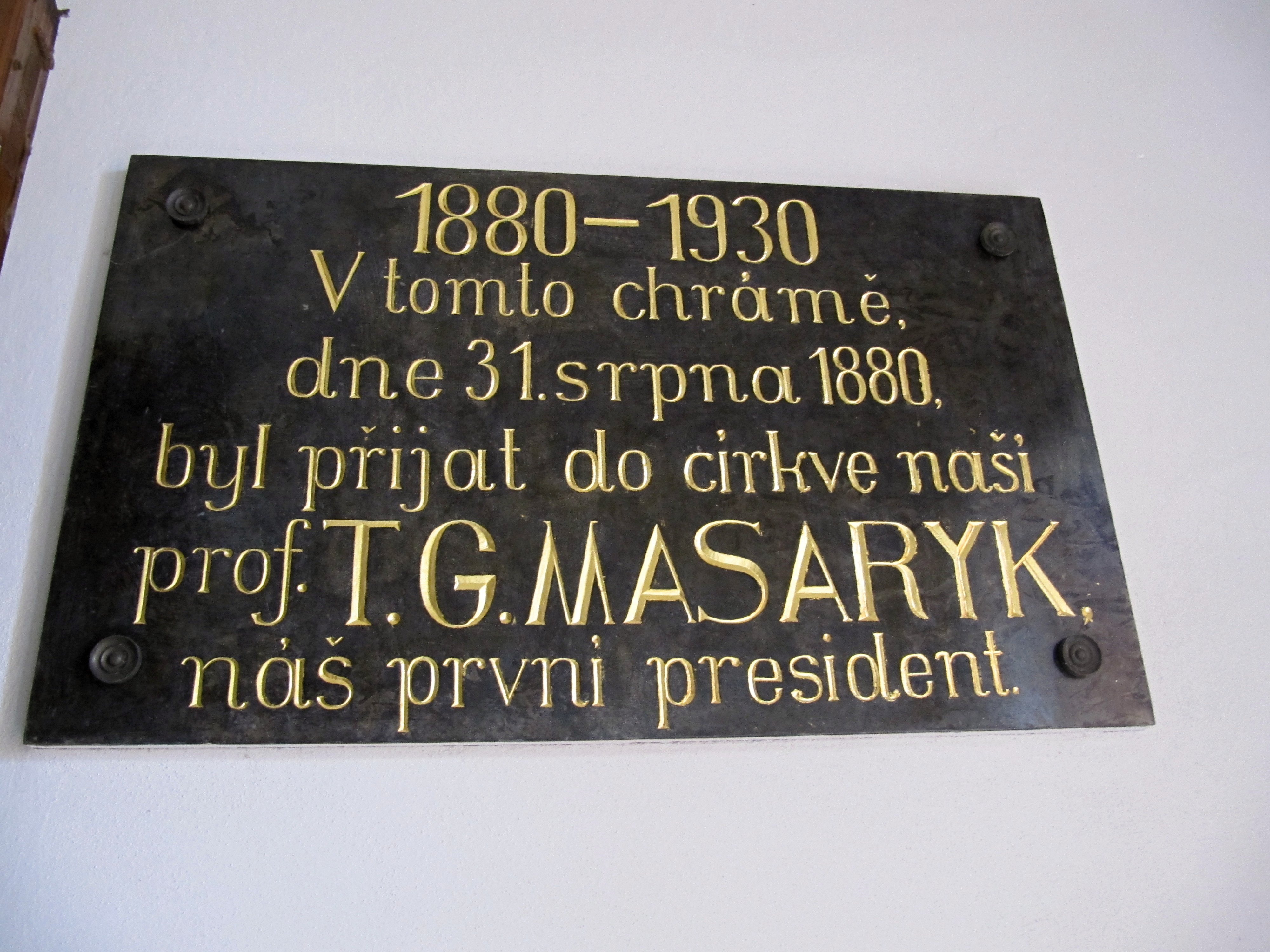 Heršpice in Vyškov District, Czech Republic. Church of the Evangelical Church of Czech Brethren from 1869. Plaque reminding the adoption of T.G. Masaryk, the later czechoslovak president, to the church in 1880.